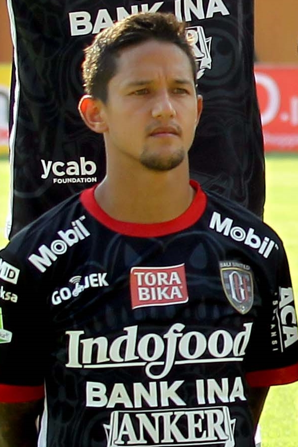 Laga home perdana GoJek Traveloka Liga 1 Madura United melawan Bali United Yang berakhir dengan skor 2-0 di Stadion Ratu Pamellingan Pamekasan, Jawa Timur, Minggu (16/04/2017) sore. Suci Rahayu